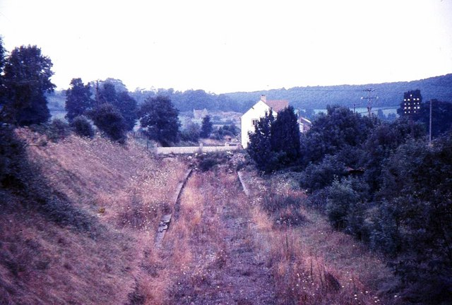 Hallatrow Railway Station Totally overgrown station platforms and trackbed